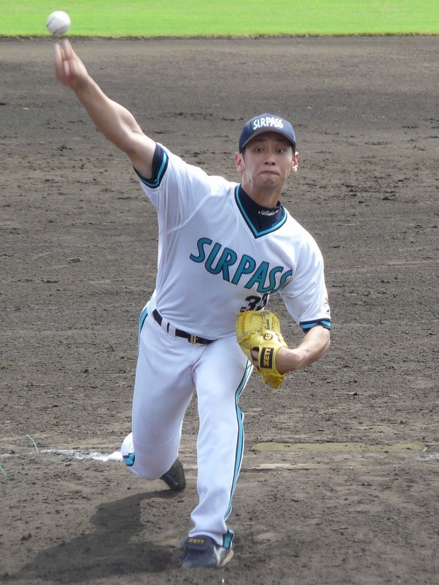 Atsuhiro Mitsuhara